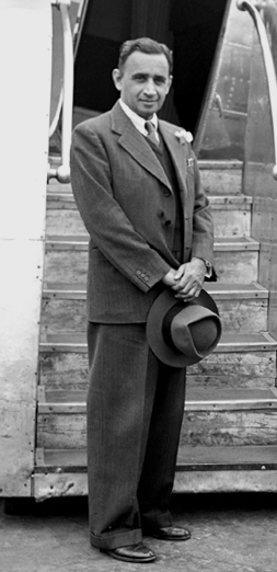 Photo Studio/2.2.1952,A22nPhoto taken on departure of Minister for Finance Shri C.D. Deshmukh from Palam Airport on February 2, 1952. Photo Number:-24982